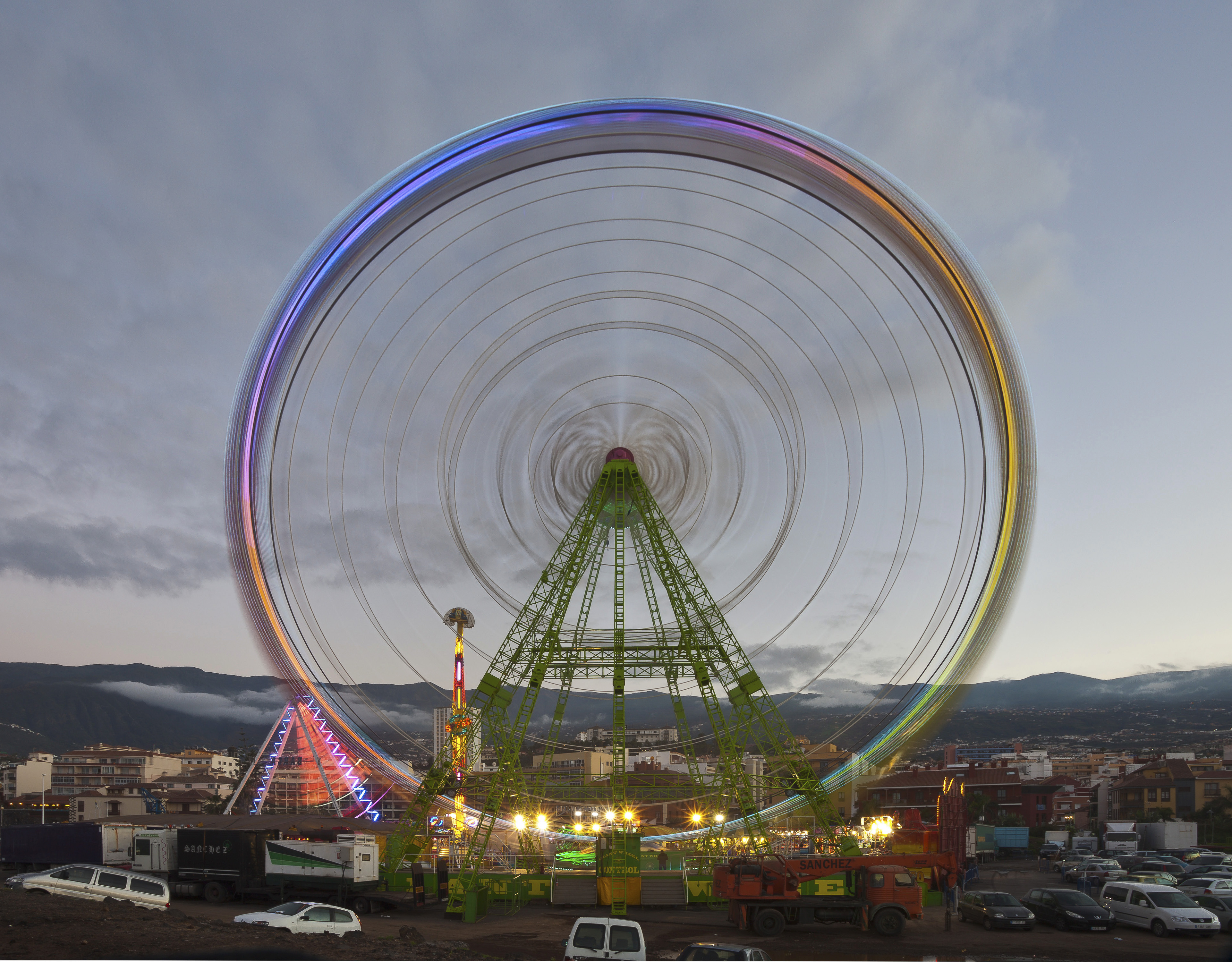 Ferris wheel, Puerto de la Cruz, Tenerife, Spain